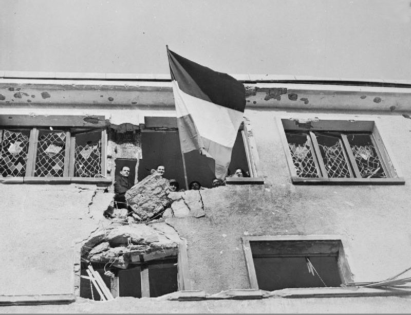 The Allied Counter Attack 25 December 1944 - 28 January 1945: Civilians of Wiltz in Luxembourg at the window of the hospital, watch as the Luxembourg flag flies again after the town's liberation by the 4th Armoured Division on 25 December as Patton's 3rd Army began the attack which would relieve Bastogne. This is photograph FRA 200617 from the collections of the Imperial War Museums.